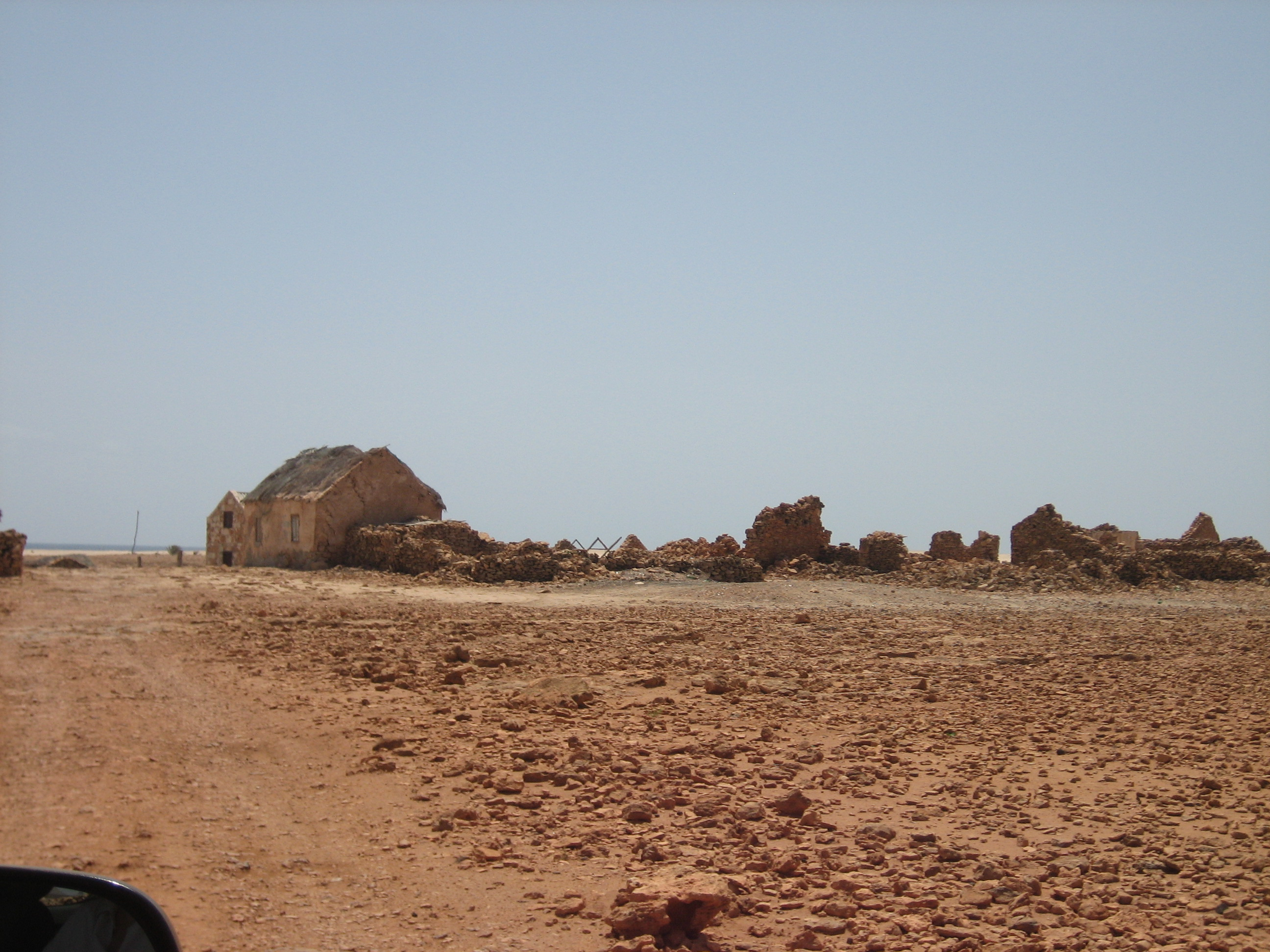 Ruins of the abandoned village of Curral Velho on the island of Boa Vista, Cape Verde, view to the south direction